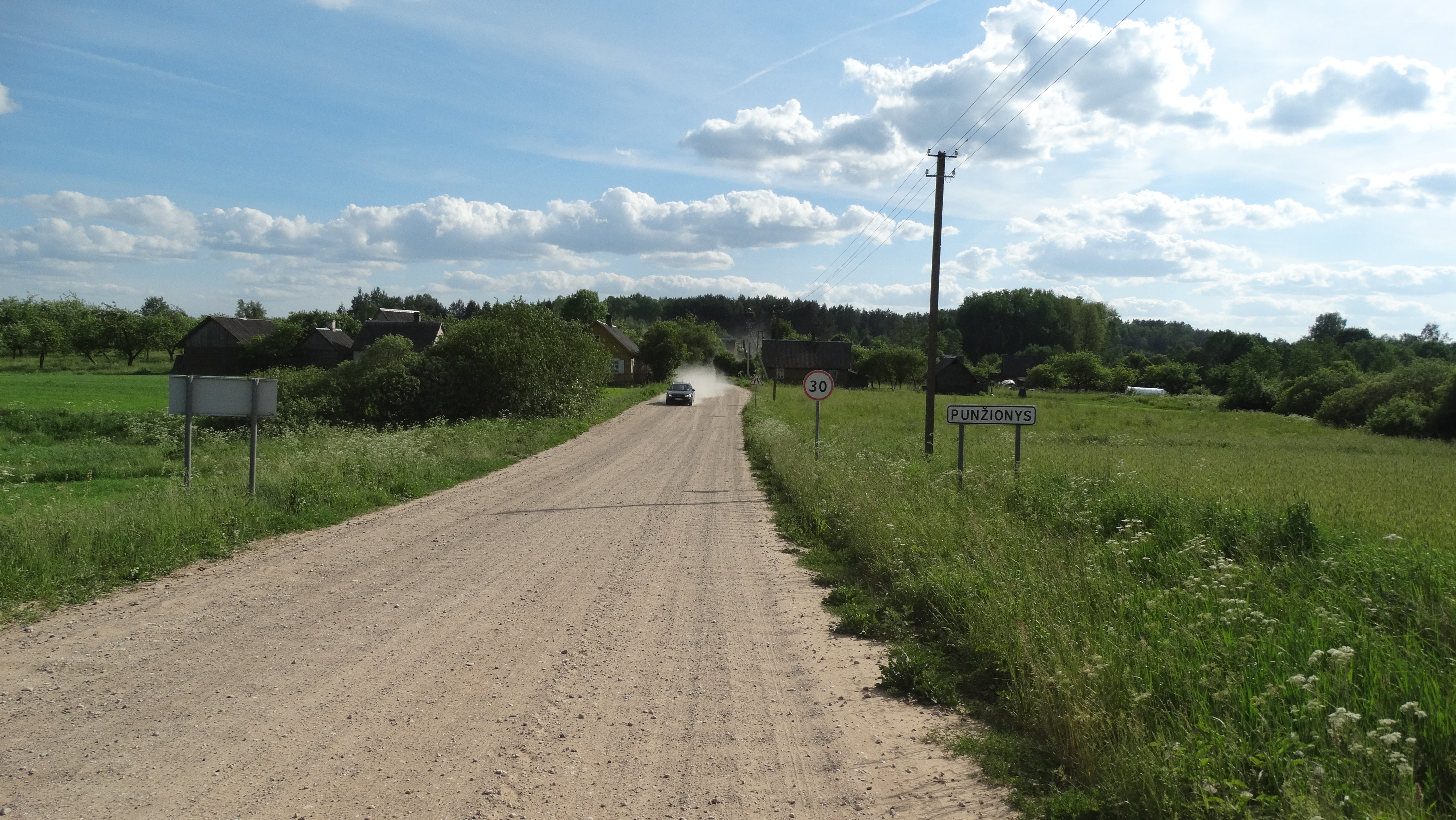 Punžionys, Švenčionys District, Lithuania